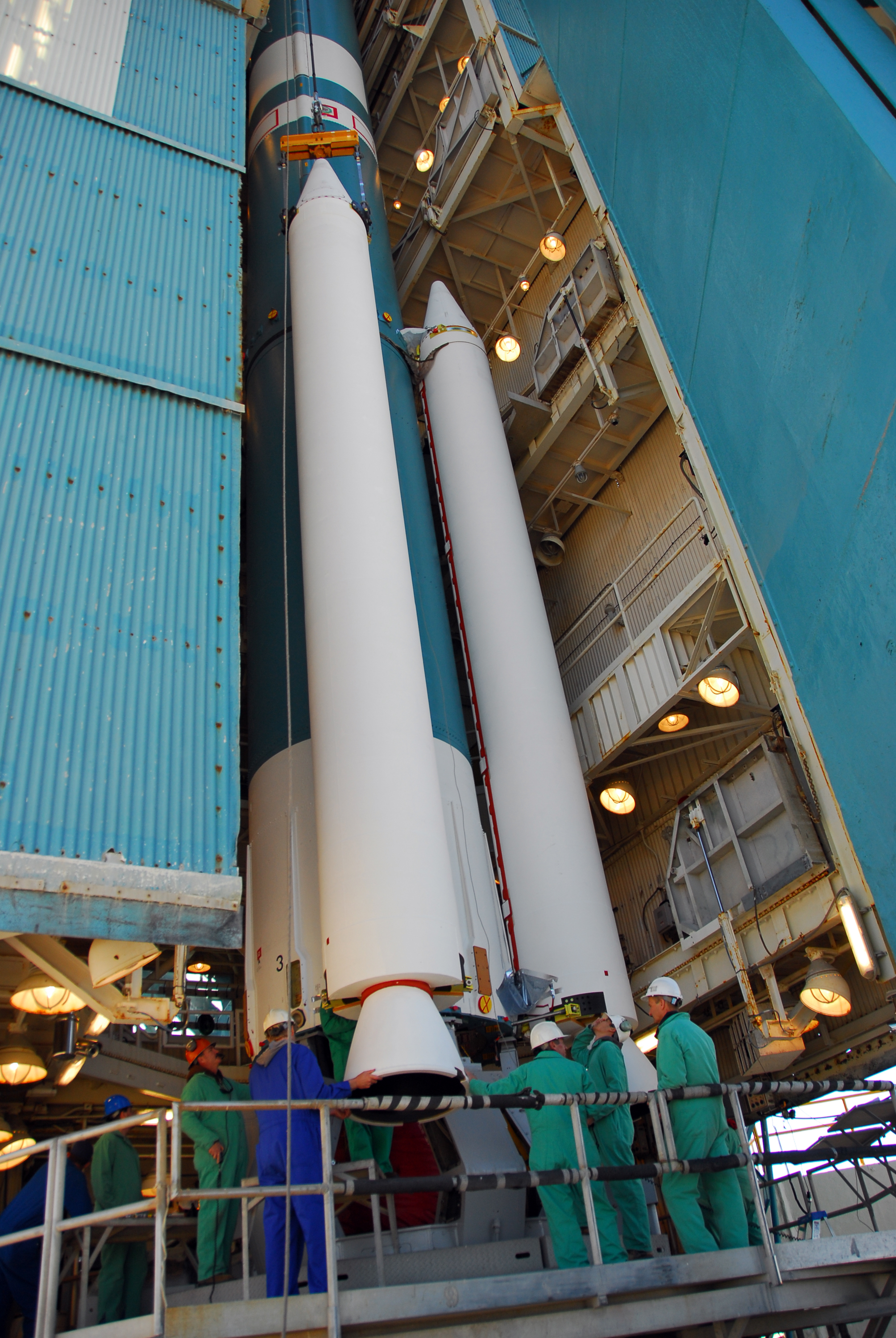 VANDENBERG AIR FORCE BASE, Calif. -- Workers attach one of three solid rocket motors to a United Launch Alliance Delta II launch vehicle in the service tower at NASA's Space Launch Complex-2 (SLC-2) at Vandenberg Air Force Base in California. Following final tests, the spacecraft will be integrated to the Delta II in preparation for the targeted June launch. Aquarius, the NASA-built instrument on the SAC-D spacecraft will provide new insights into how variations in ocean surface salinity relate to fundamental climate processes on its three-year mission.